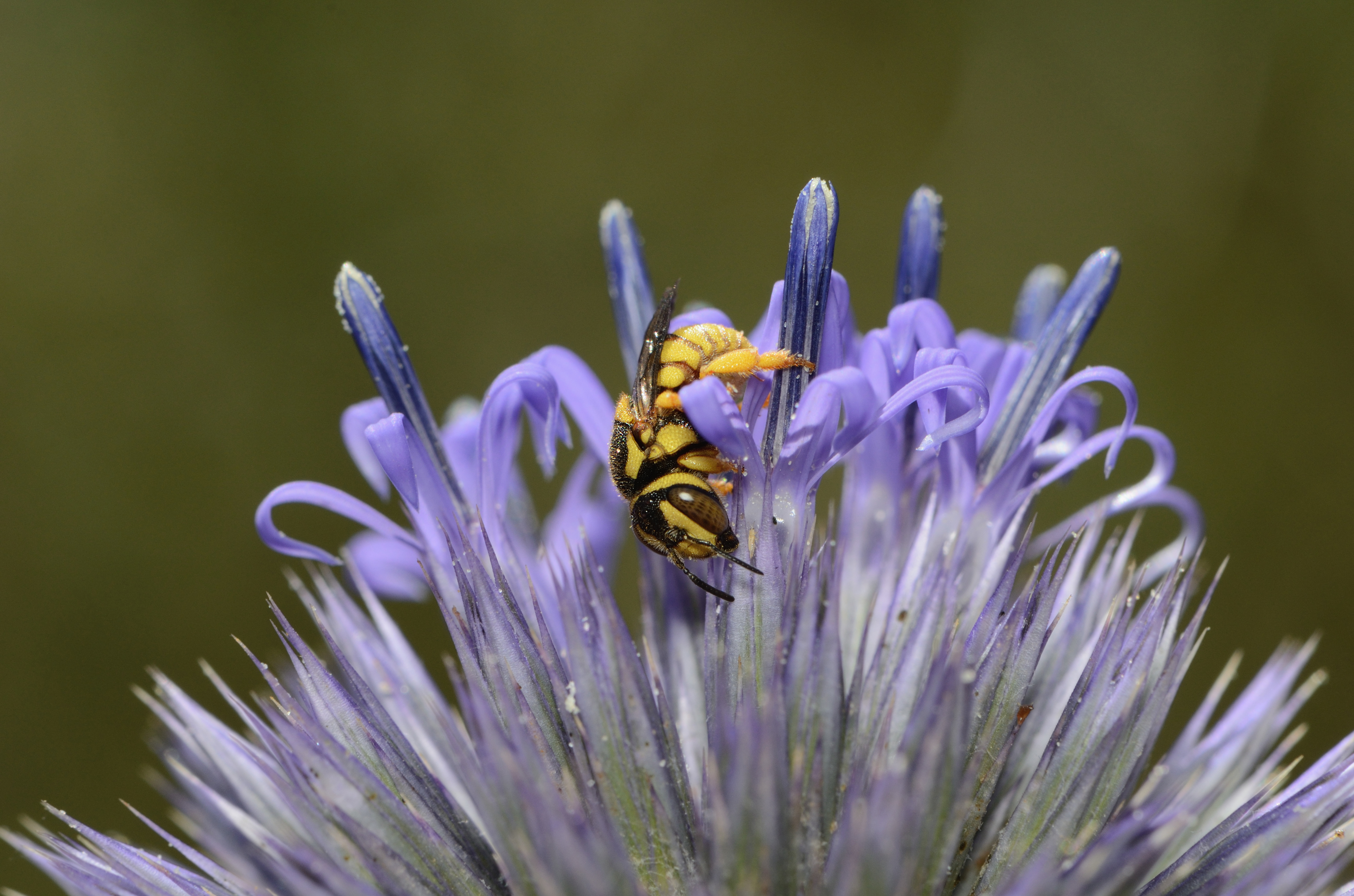 Anthidiellum strigatum (Panzer, 1805), female foraging on Echinops sp., Mount Meron, Upper Galilee, Israel, June 29, 2013. Det. Andreas Mueller 2014.